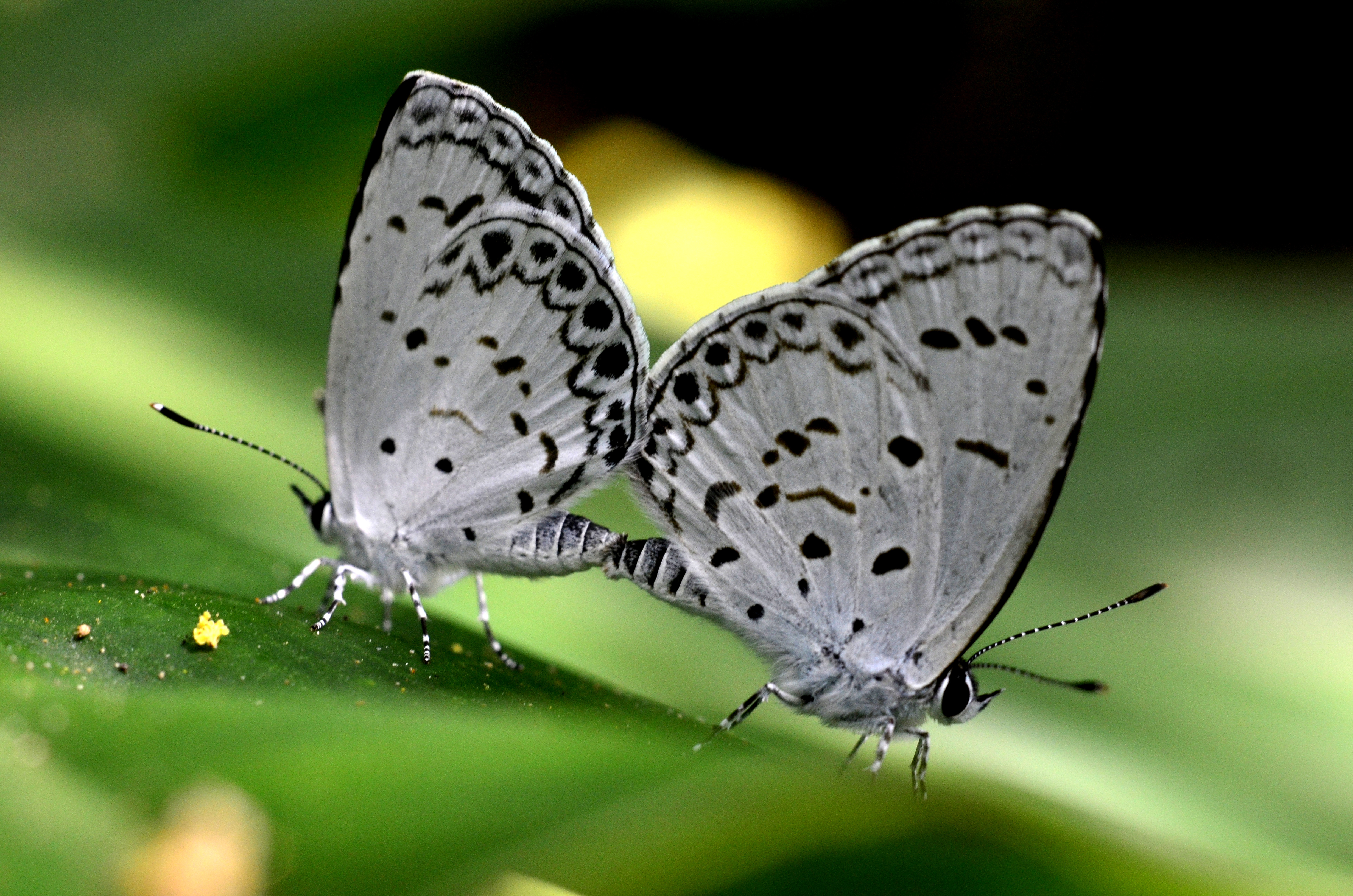 Acytolepsis puspa myla mating.